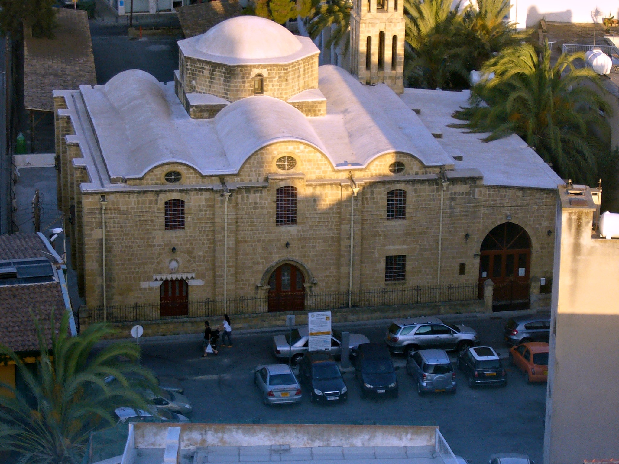 Church of Archangel Michael Trypiots in Nicosia, Cyprus Republic